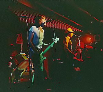 Holme playing at Art Stock's Royal Manor South in Wall, NJ, Summer 1977.